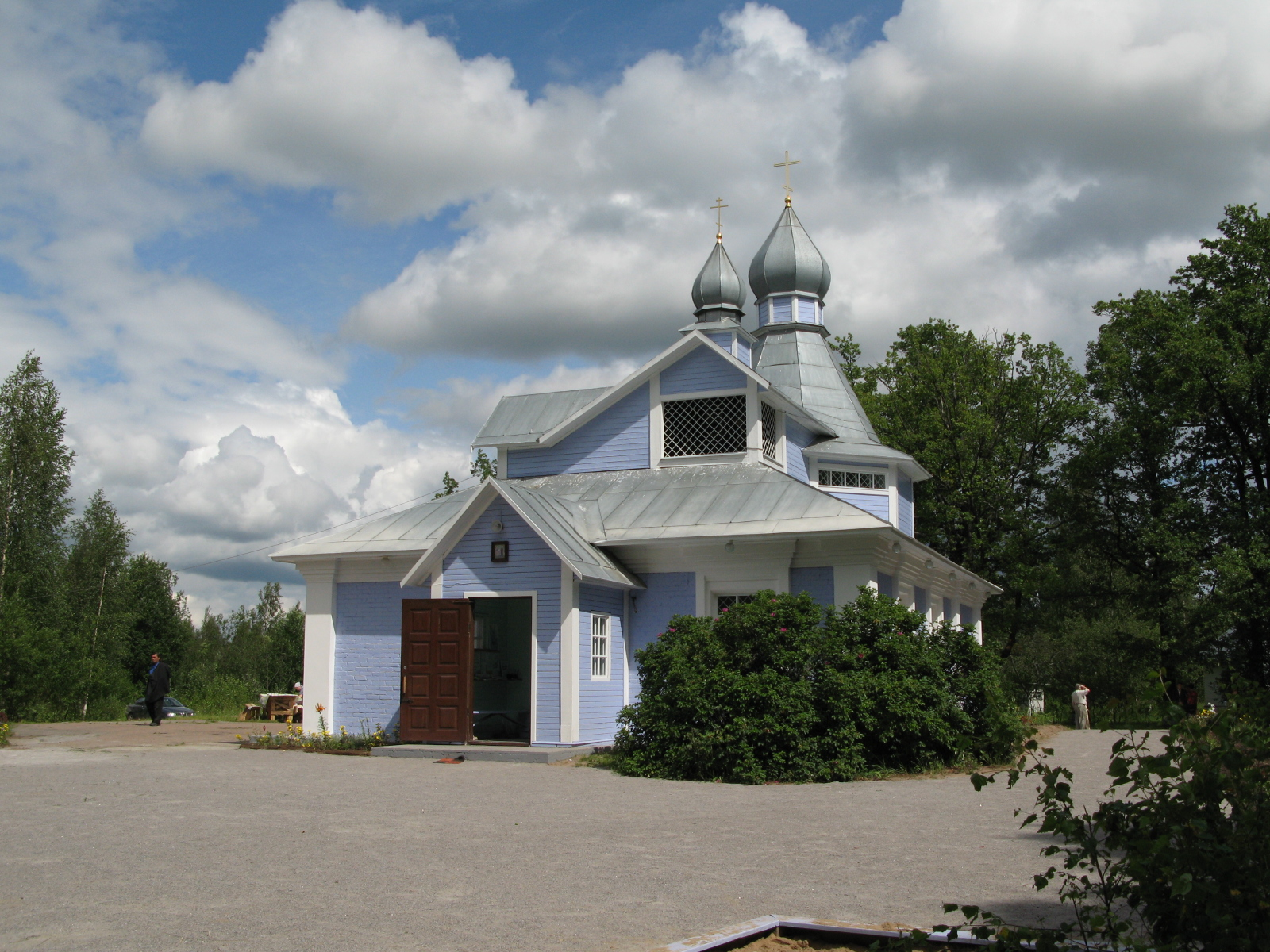 Петра и Павла в пос. им. Морозова